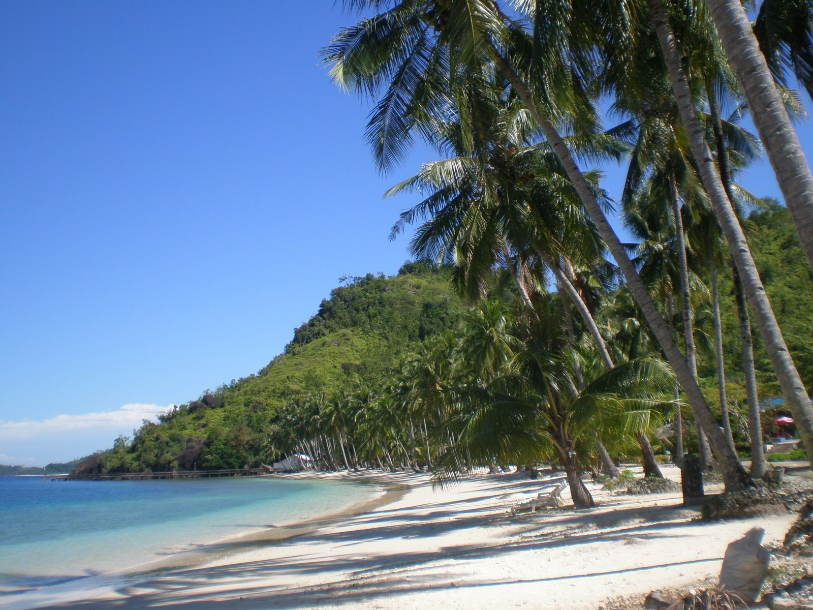 Beach of Sikuai island, West Sumatra, Indonesia